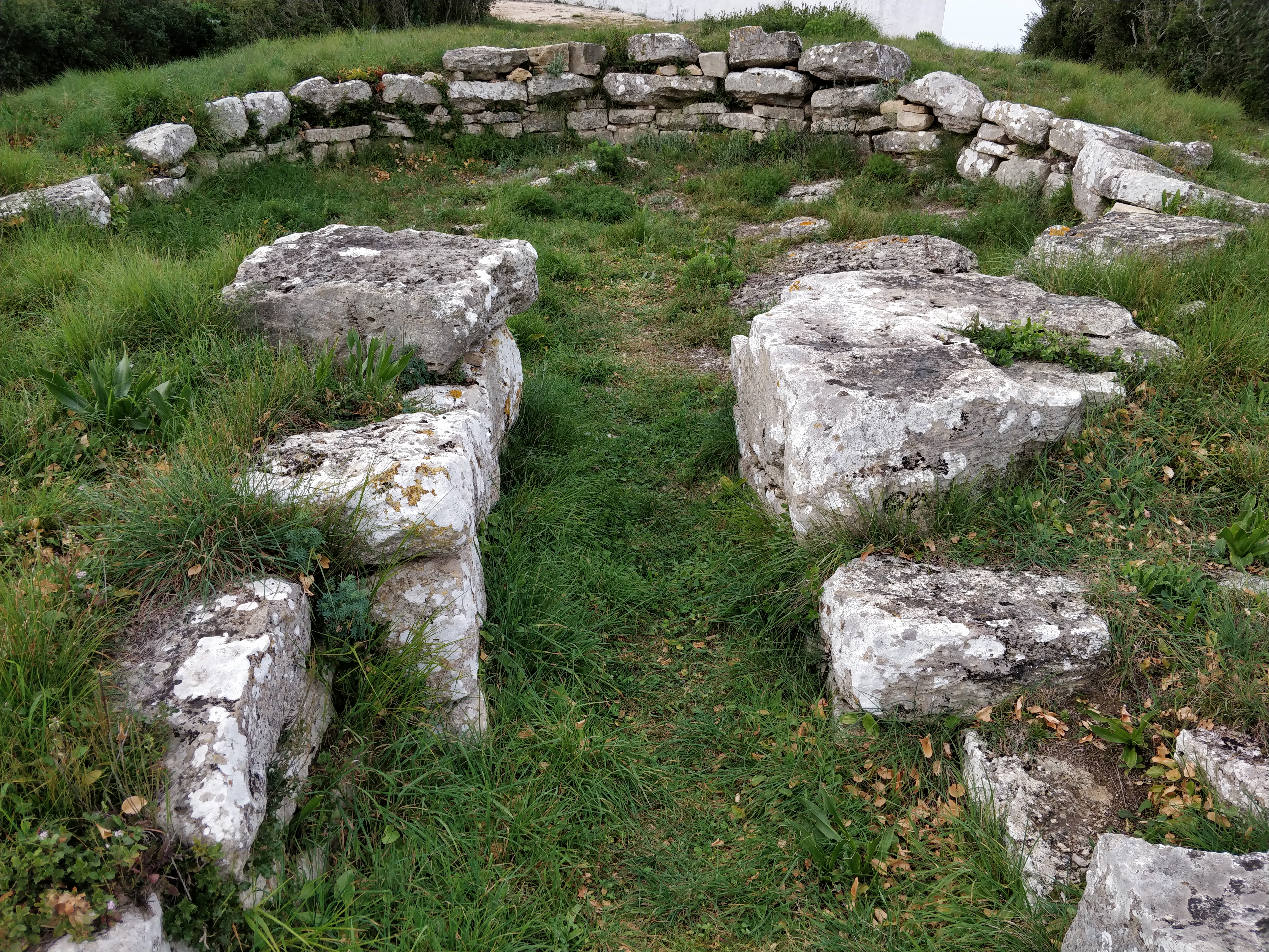 View of the Tholos do Barro, a megalithic tomb near Torres Vedras in Portugal